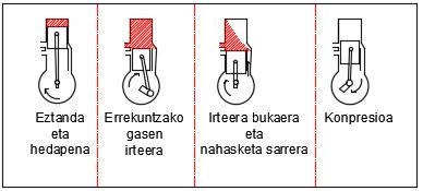 Bi aldiko eztanda-motor baten funtzionamendua.